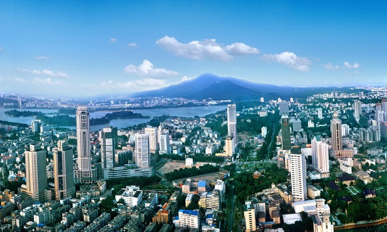 NANKING